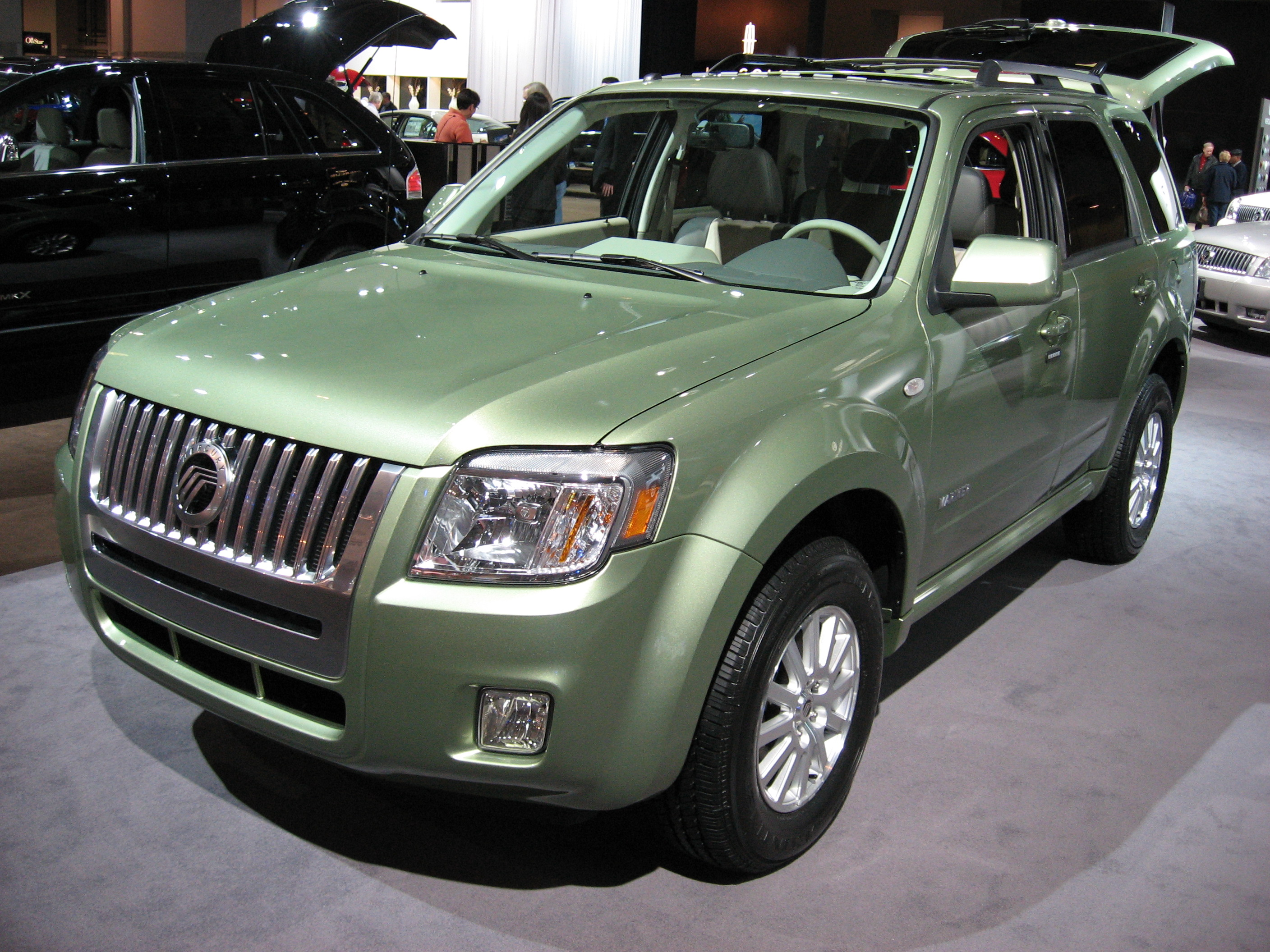 2008 Mercury Mariner photographed at the Washington Auto Show.